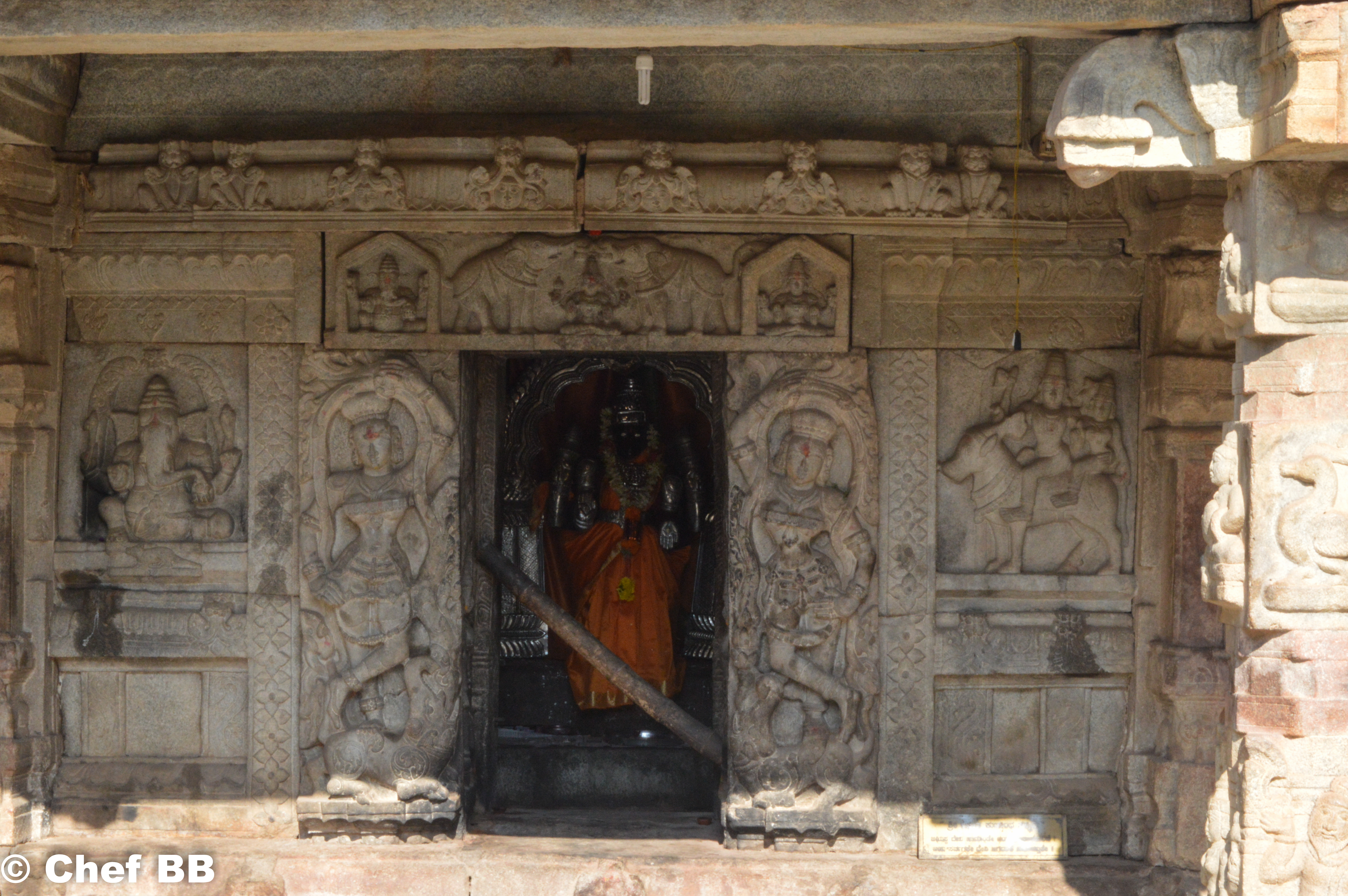 Beautiful View of Bhoga Nandeeshwara Shrine